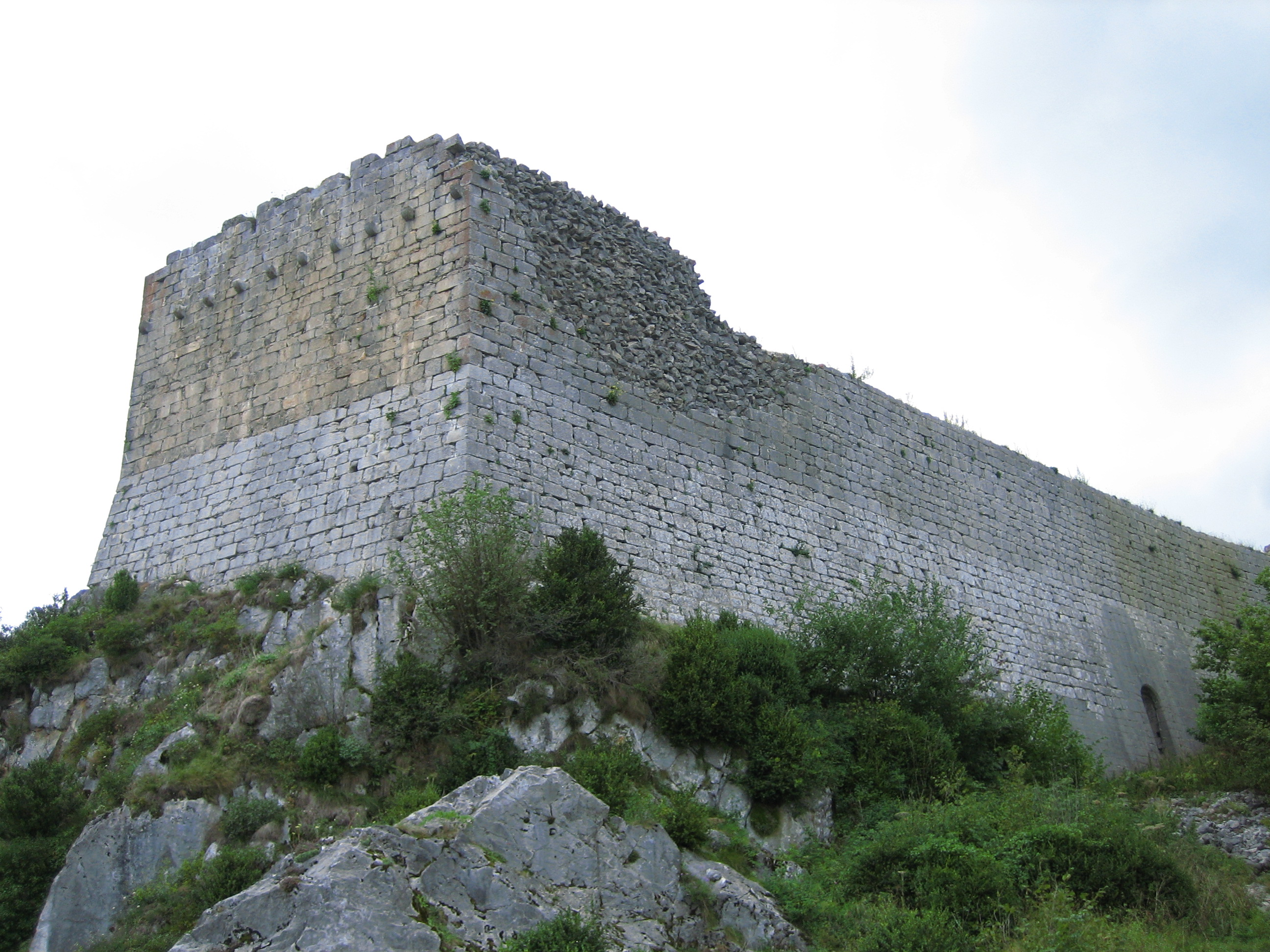 Fortress of Montségur, Montségur, Canton of Lavelanet, Arrondissement of Foix, Ariège, Midi-Pyrénées, France